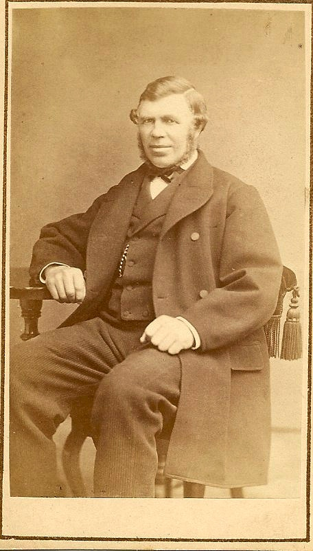 Swedish politician from late nineteenth century